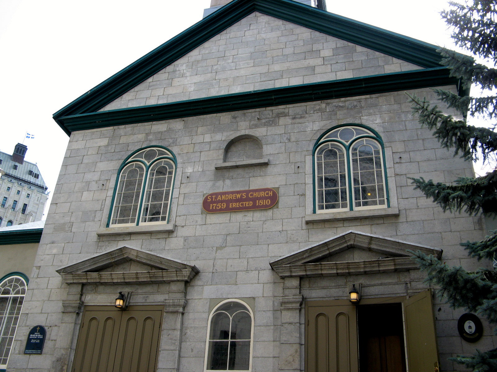 The oldest Presbyterian church in Canada.